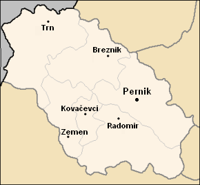 Croatian names on map of Pernik District (Bulgaria)